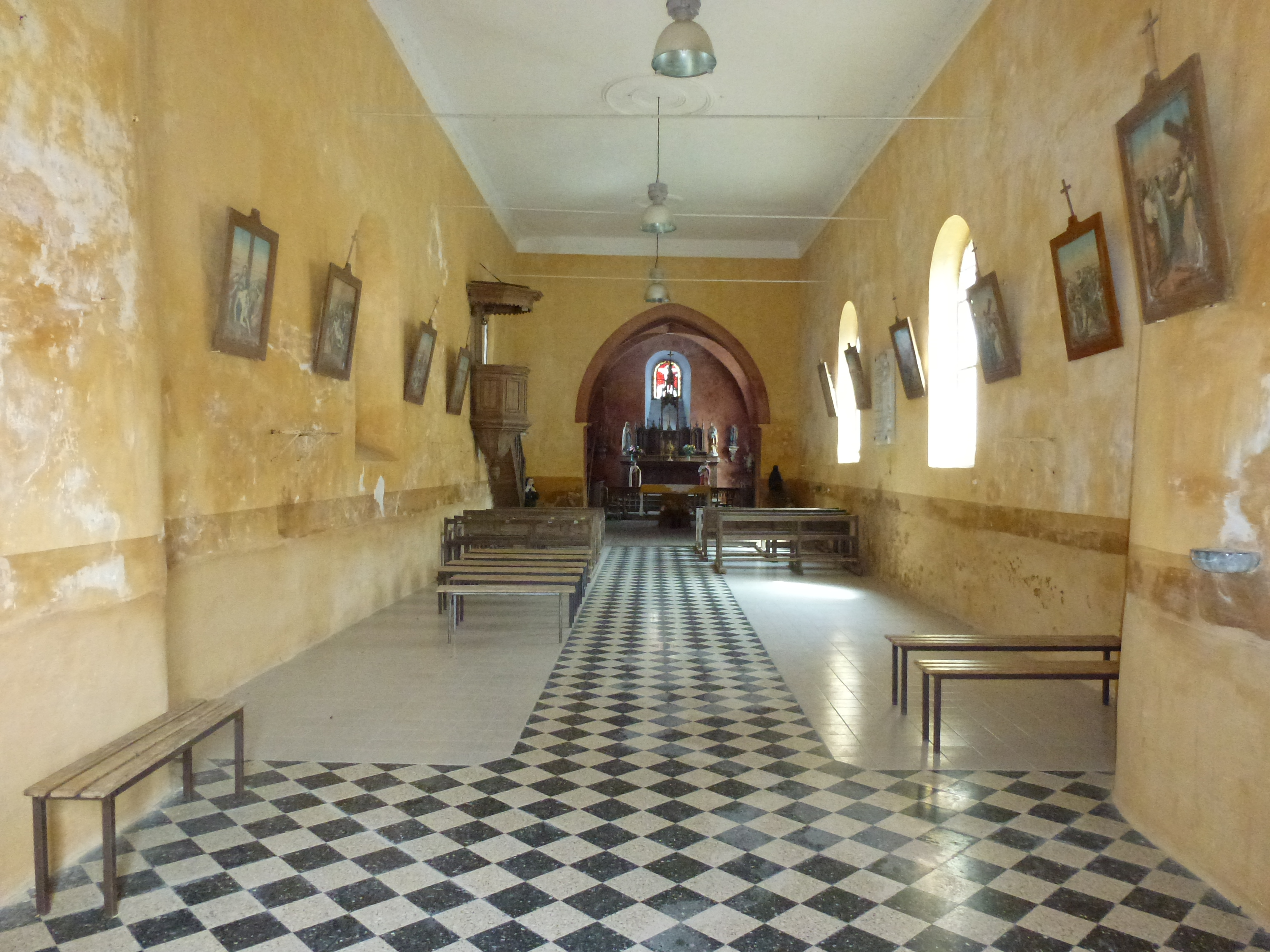 Bossus-lès-Rumigny (Ardennes) église, intérieur